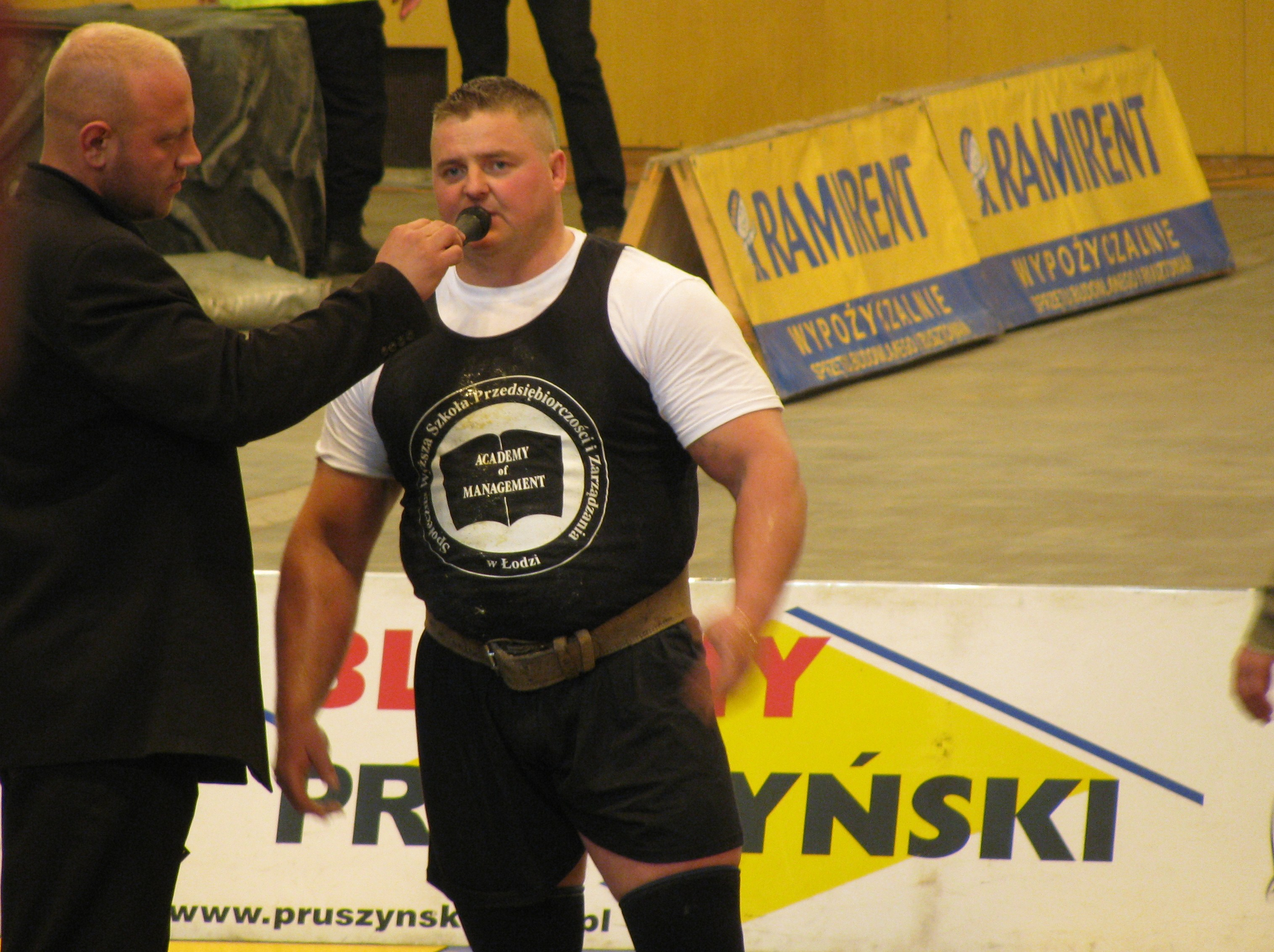 Sławomir Toczek - a Polish strongman during the Battle of The Giants competition, Poland, Łódź City, february 2009